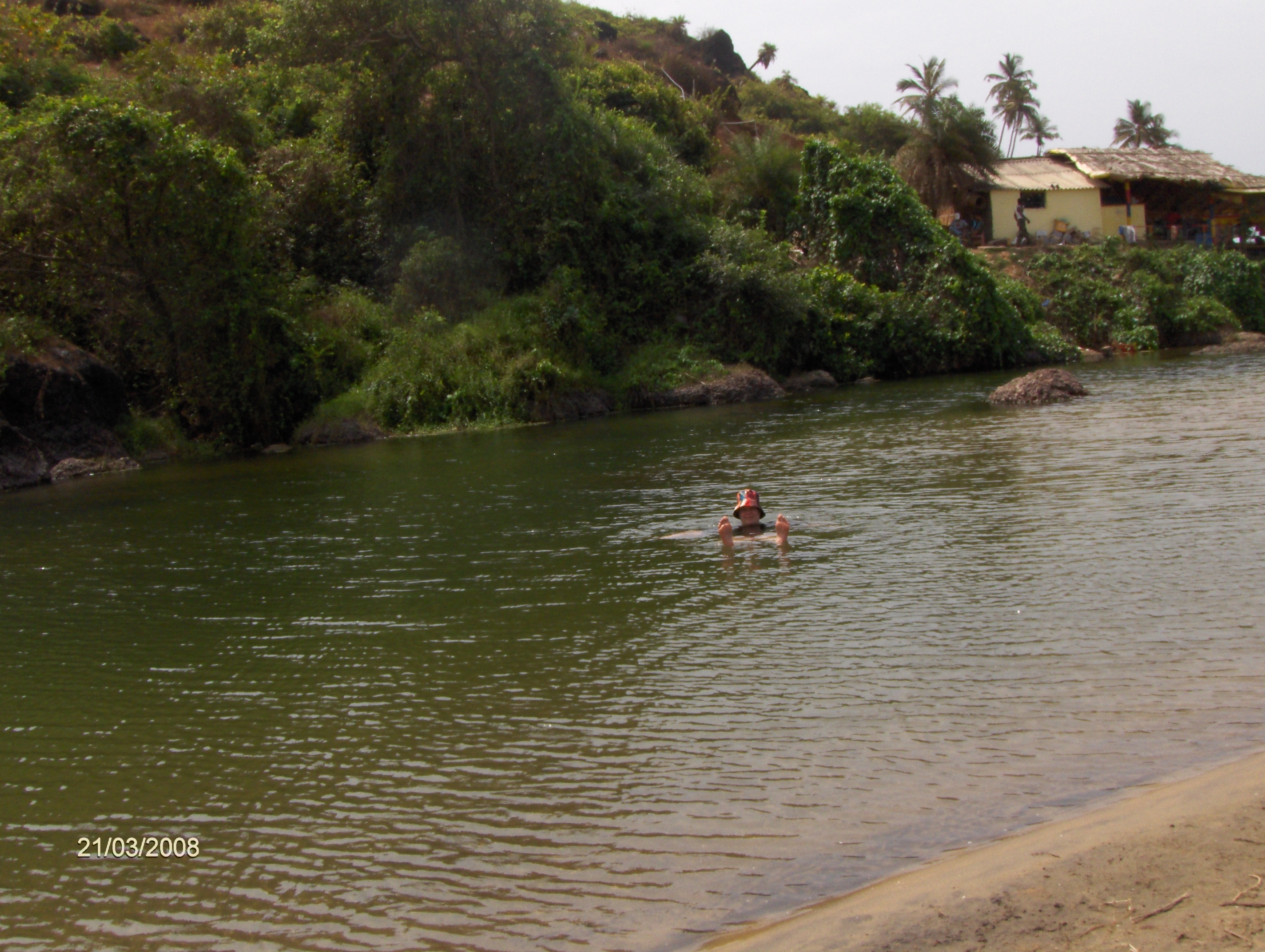 Author: Elina López